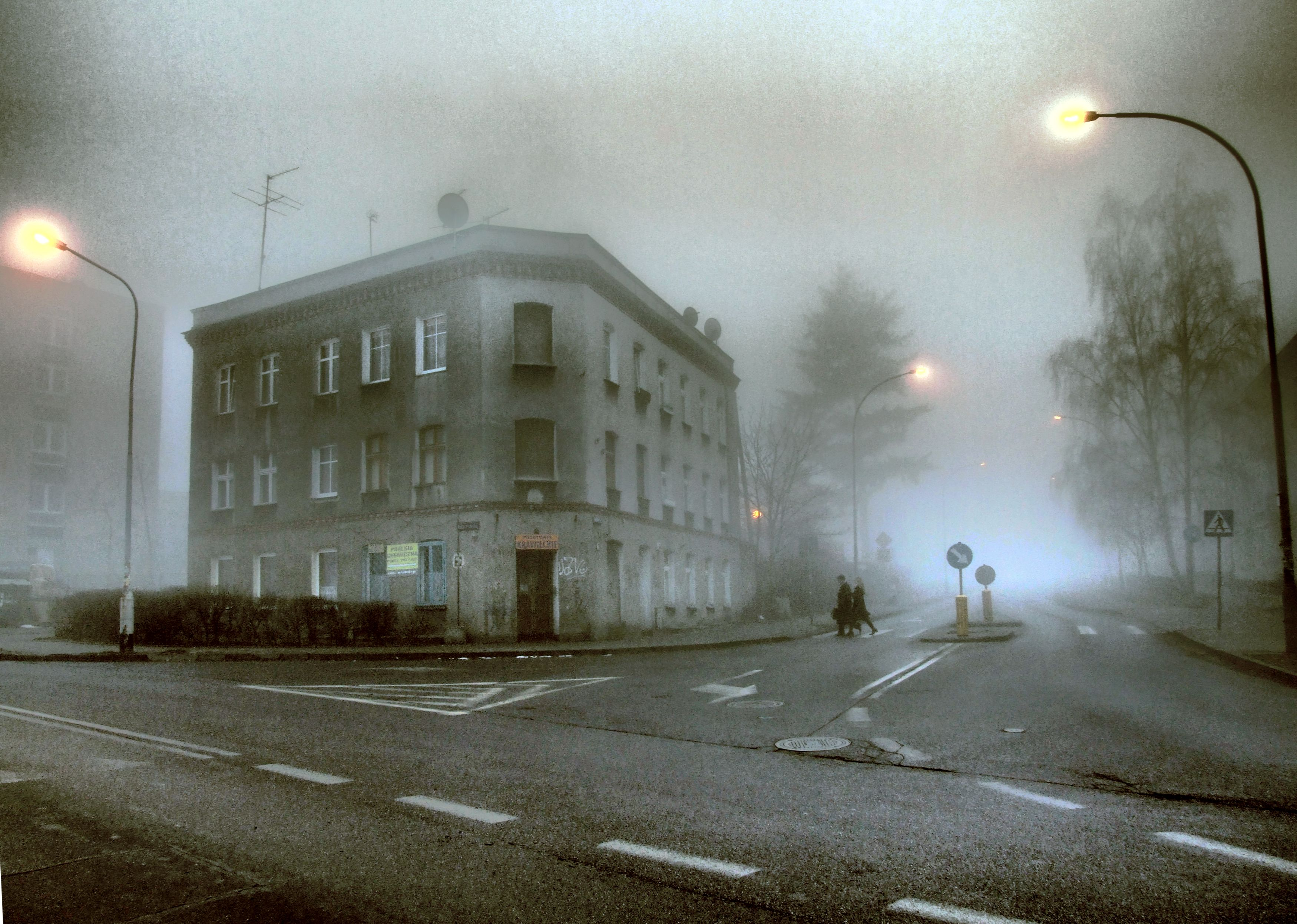 Staffage in a modern photo - a town, people in the fog.